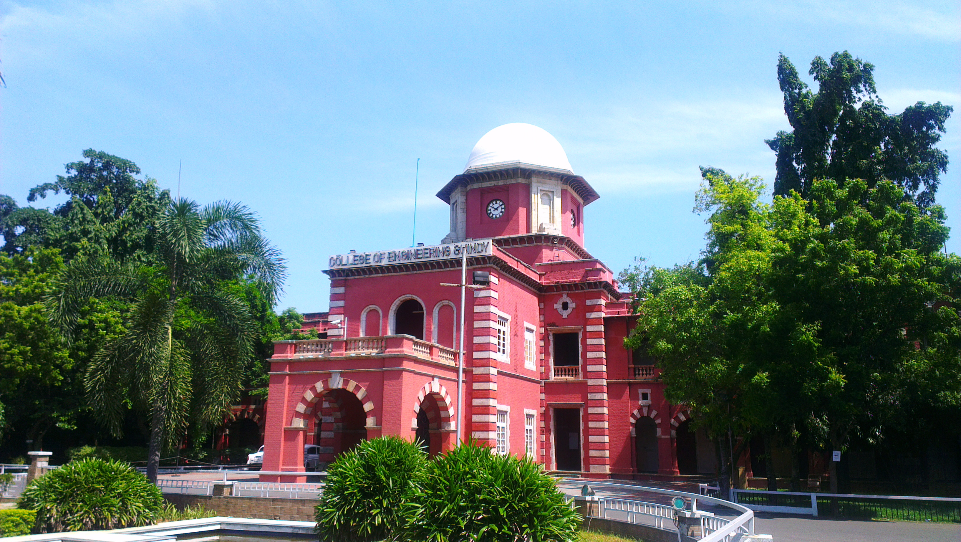 Anna university Chennai